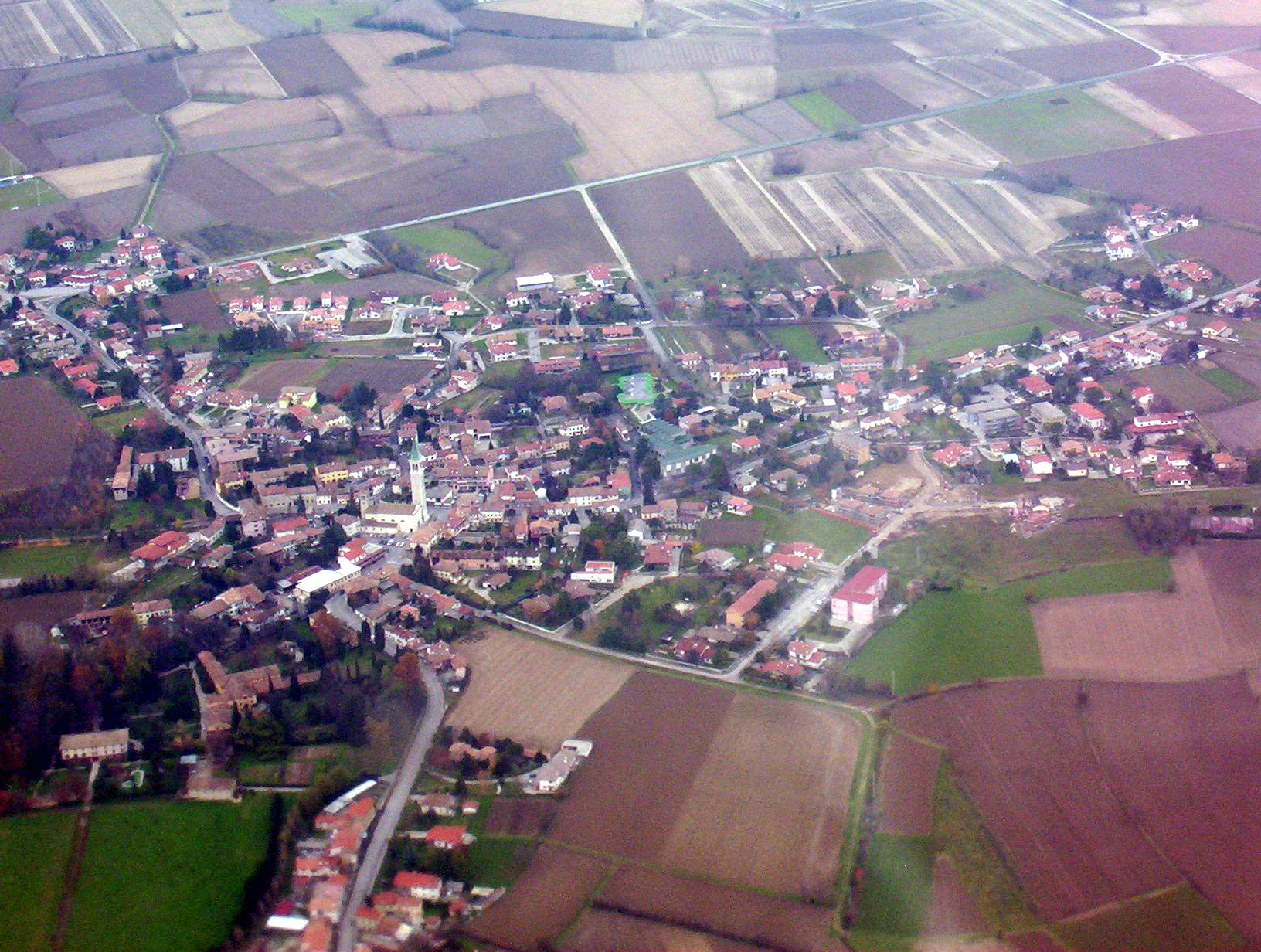 A view of Ruda (UD), Italy, from plane. The photo was taken by Trevirgola in December 2004.